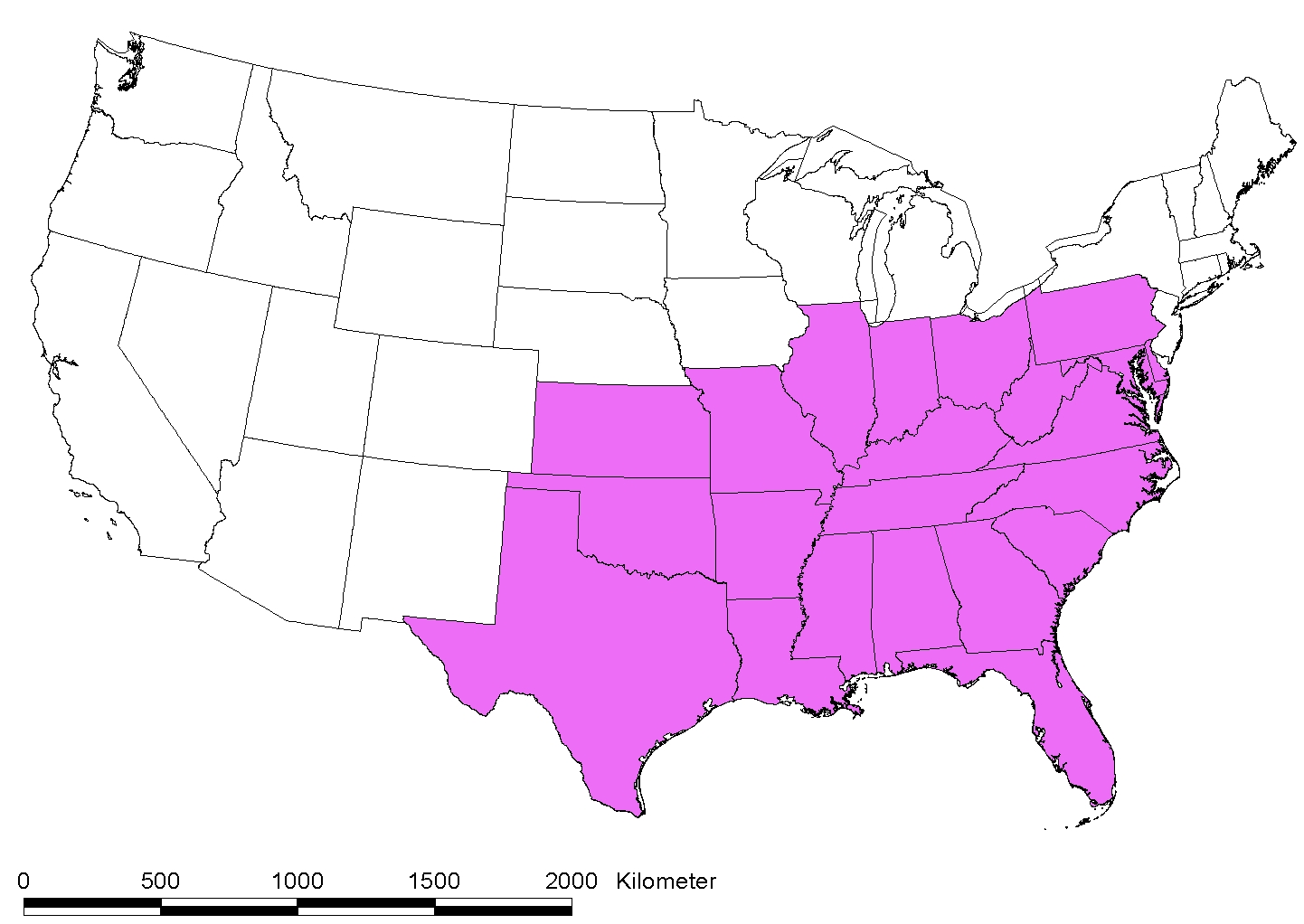 Natural Distribution of Passiflora incarnata (on U.S. state—level).